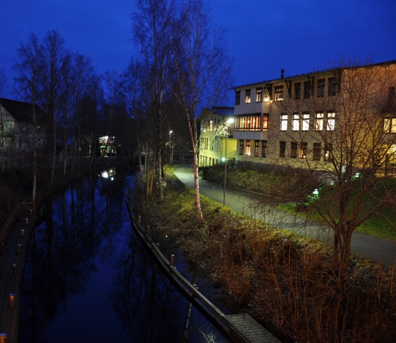 Strömkullegymnasiet